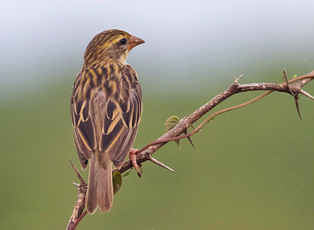 Streaked Weaver Ploceus manyar, female or immature; Hambantota, Sri Lanka